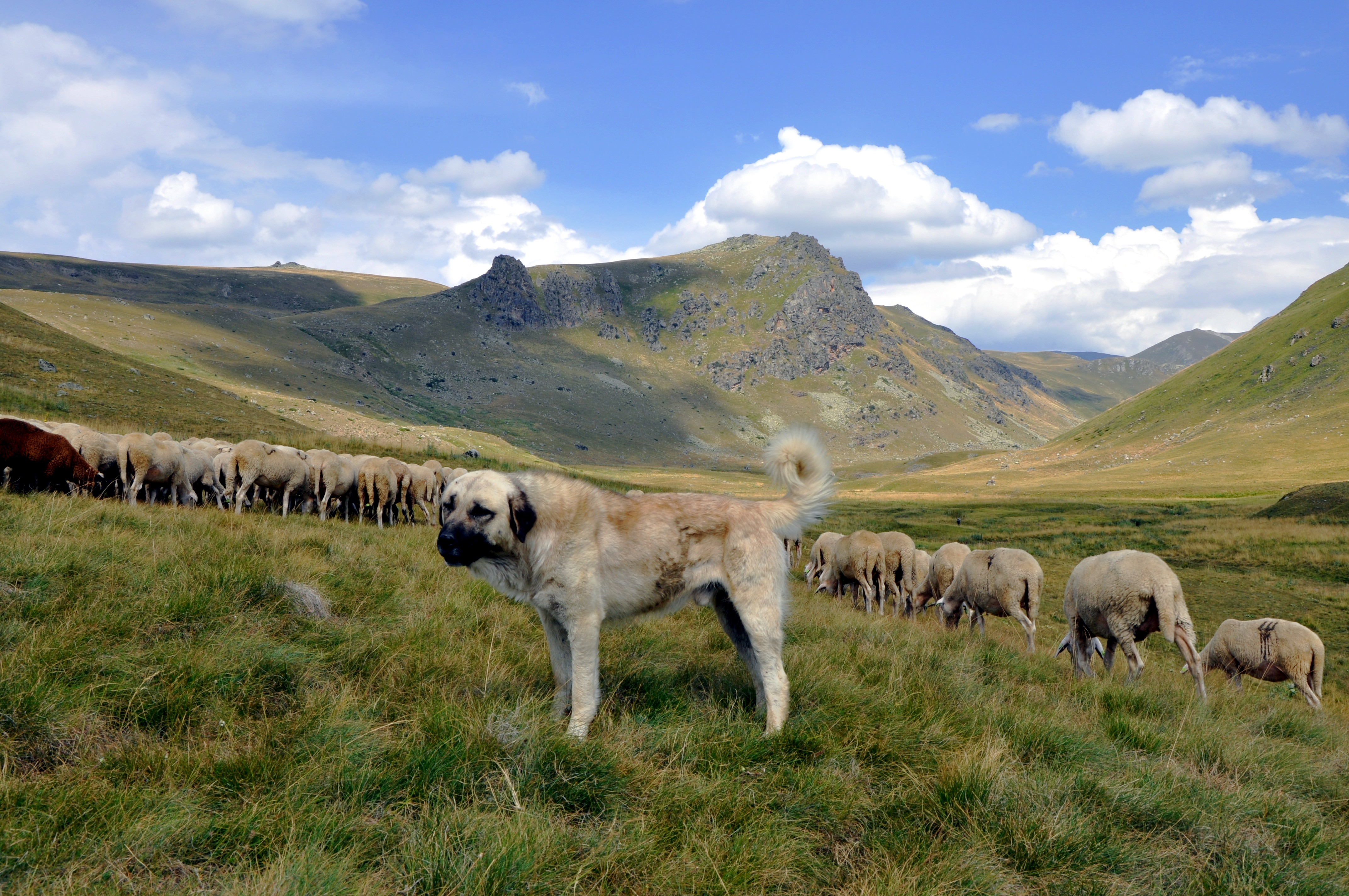 Parku Kombëtar Sharri, Prizren Suharekë Kaçanik Shtërpcë, Dragash